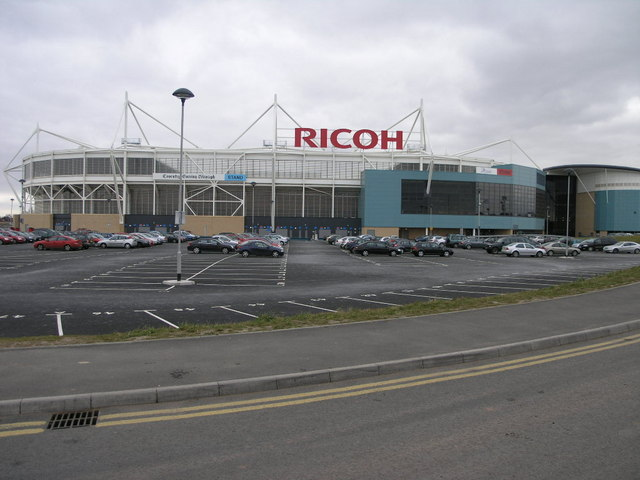 Ricoh Arena. The Ricoh Arena, the Home of Coventry City Football Club.